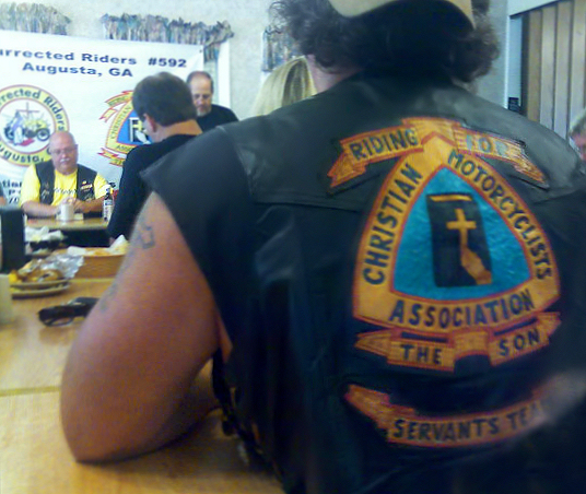 Christian Motorcycle Association Colors - Resurrected Riders Augusta Georgia